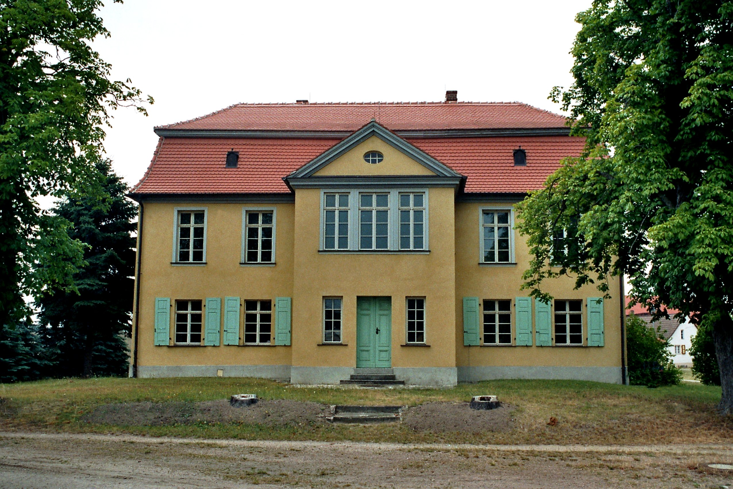 Diebzig (Osternienburger Land), the palace This is a photograph of an architectural monument. 09896